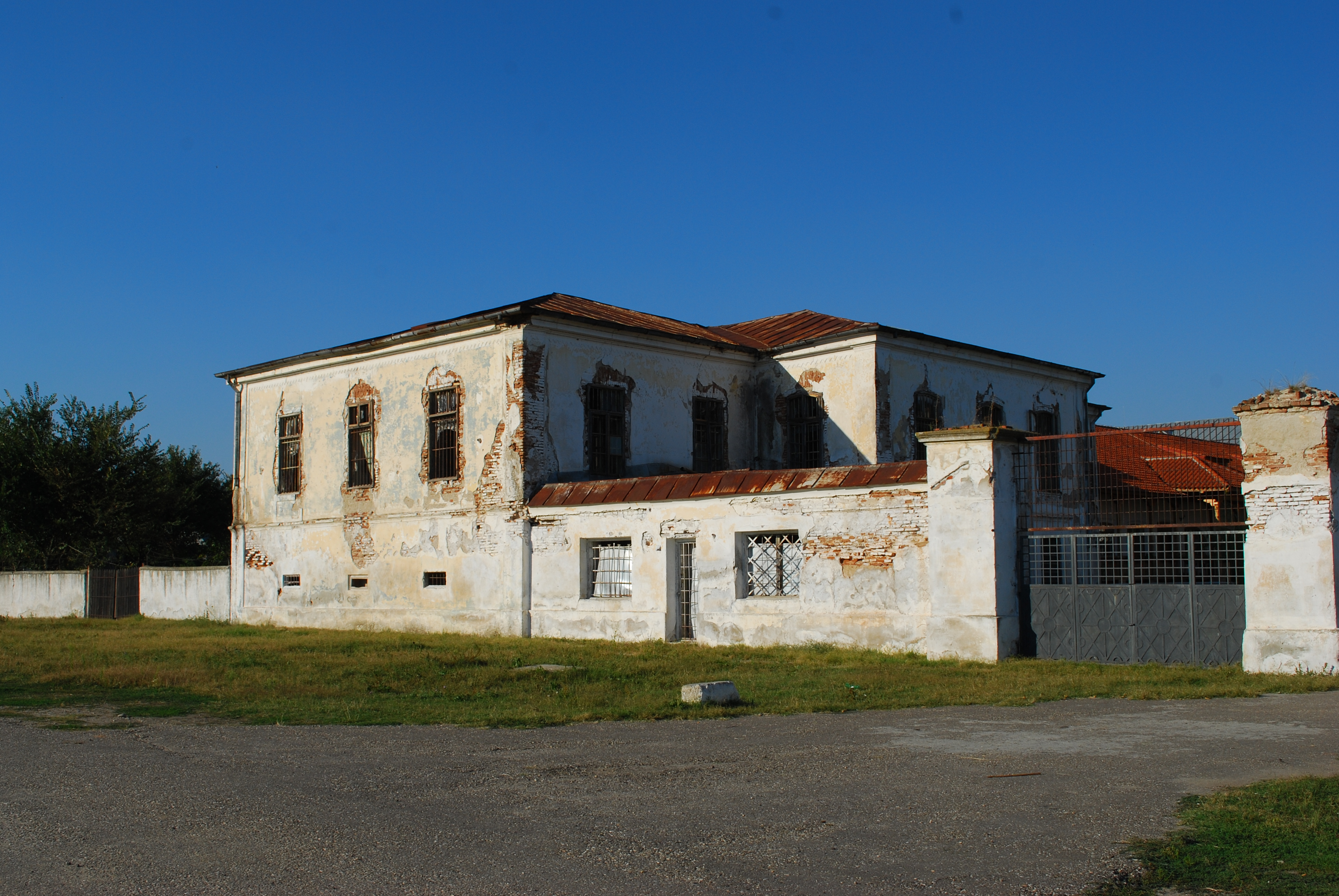 Hospodar's house at the Plătăreşti monastery, Călăraşi County, RomaniaRomână: Casă domnească, la mănăstirea Plătăreşti, judeţul Călăraşi, România